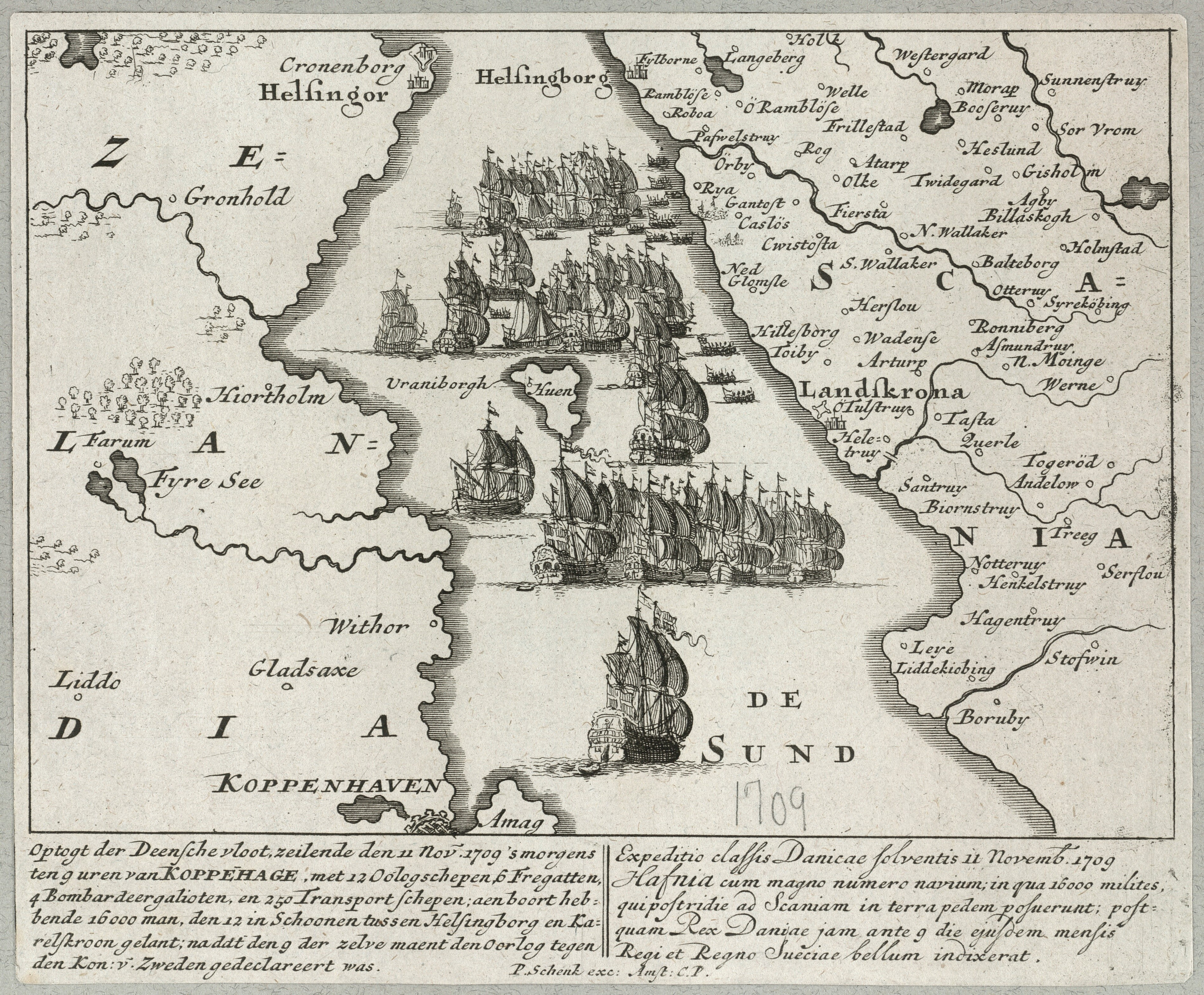 The Danish invasion fleet sailing from Copenhagen to Råå south of Helsingborg in Sweden on November 11, 1709 during the Great Northern War.